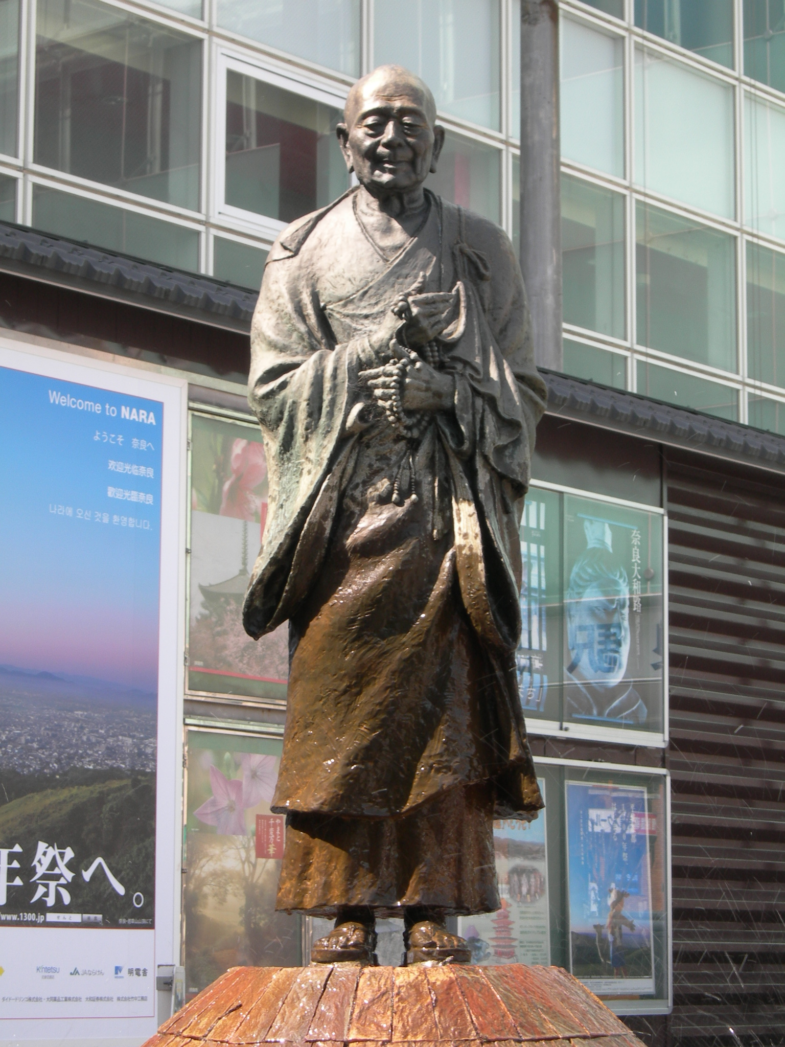 Statue of Gyōki in Kintetsu Nara Station. taken in 2010.